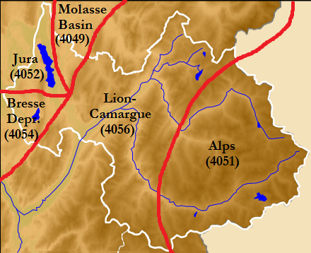 Map of geological provinces in the French department of Savoie.